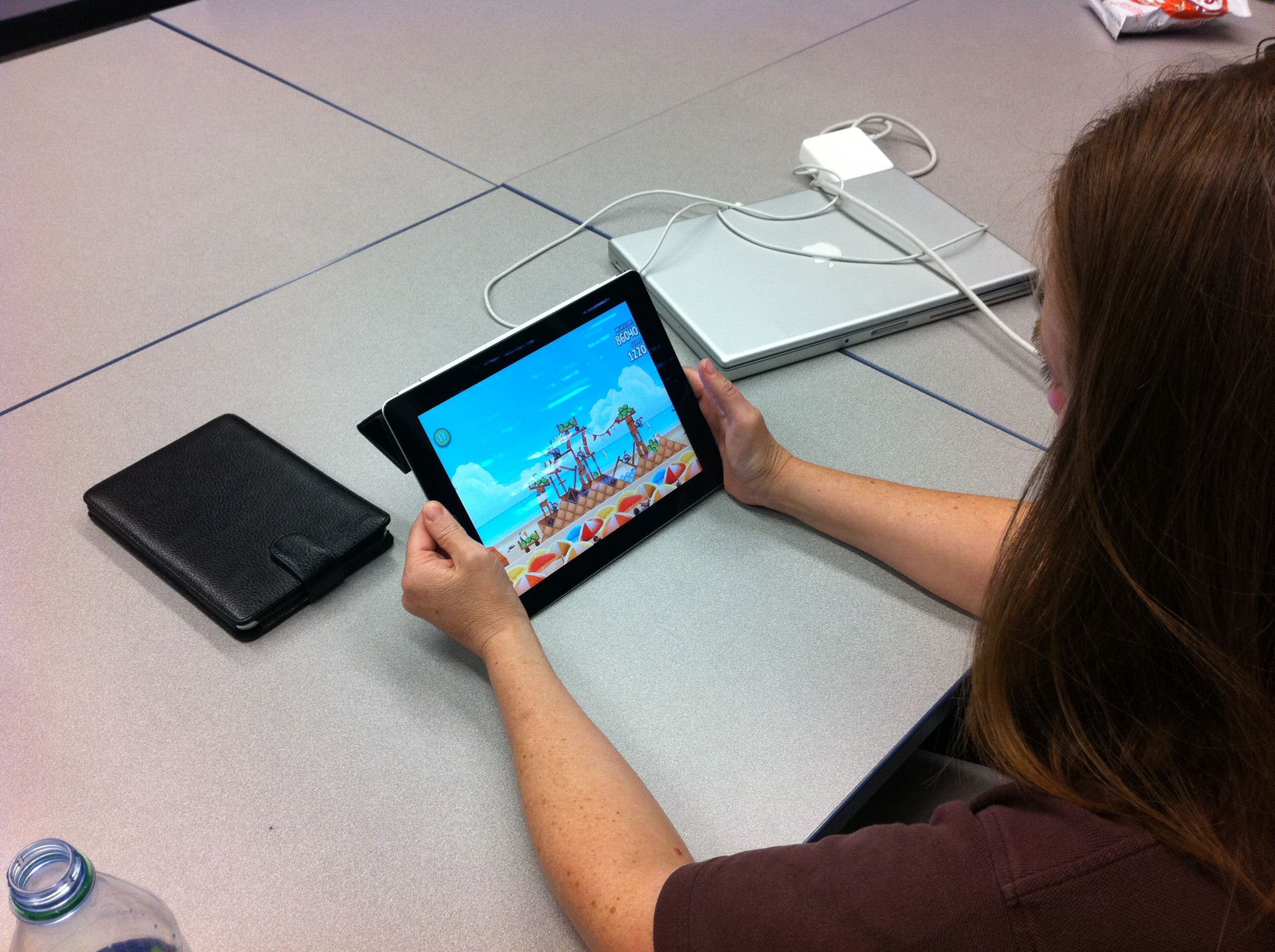 iPads can be a distraction to learning